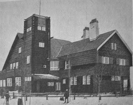 Leonid_Andreev villa